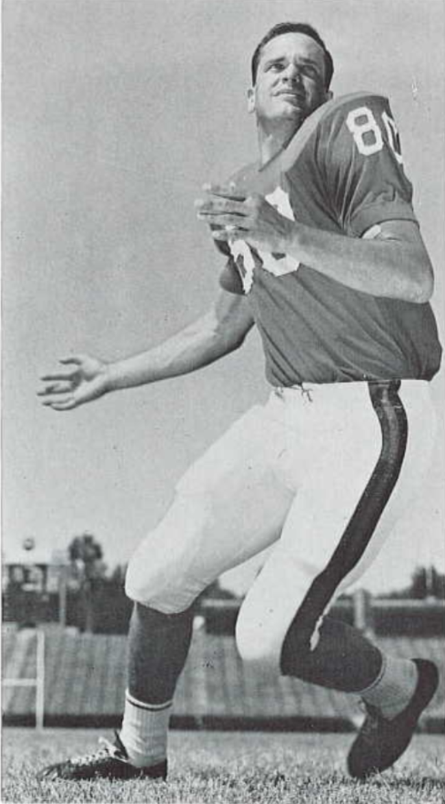 Photograph of Barry Brown